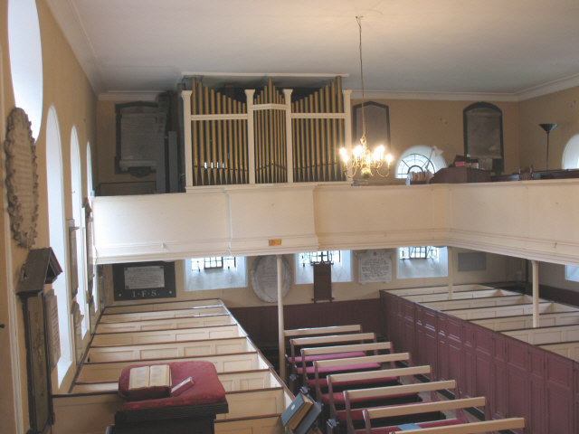 Interior of St Peter's church. The interior of Petersham parish church 794821 showing the Georgian box pews and the unusual gallery organ (which may be replaced in the next few years).